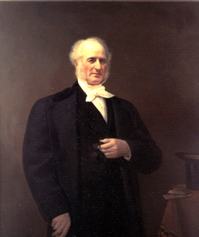 Commodore Cornelius Vanderbilt (1794–1877)